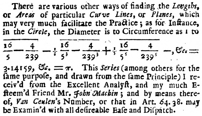 One of the first usages of π to represent the circumference of a circle divided by the diameter, by William Jones. This is from page 263, though another usage appears on page 243 (and also refers to John Machin). Reference: Jones, William (1706) (in english) Synopsis Palmariorum Matheseos : or, a New Introduction to the Mathematics, pp. 243, 263